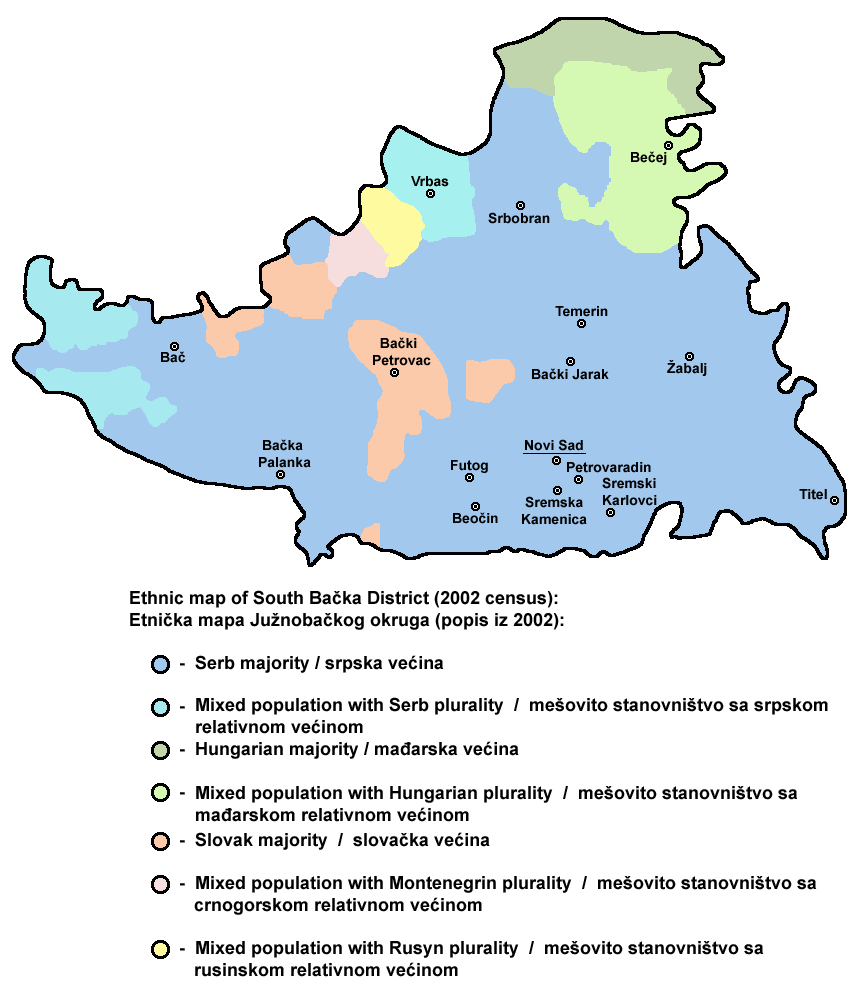 Ethnic map of South Bačka District - 2002 census (data by settlements).